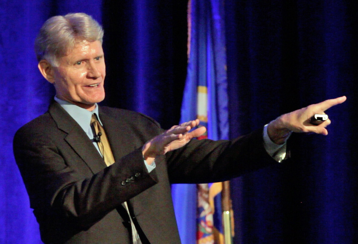 Author, Tom Gegax, Points to the Future